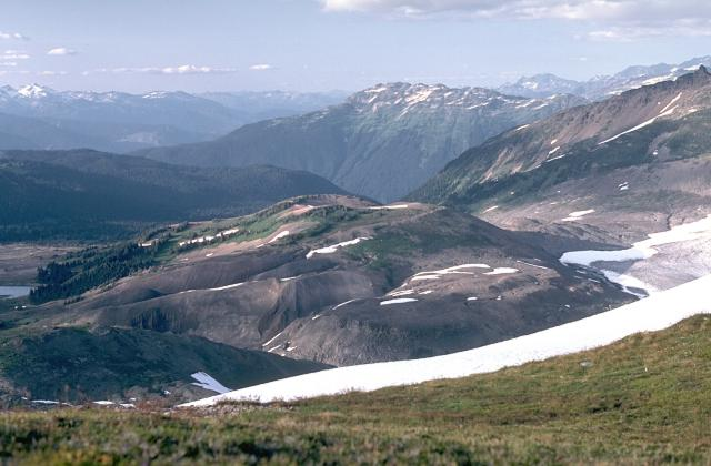 Cinder Cone is the irregular mound in the middle of this photo.